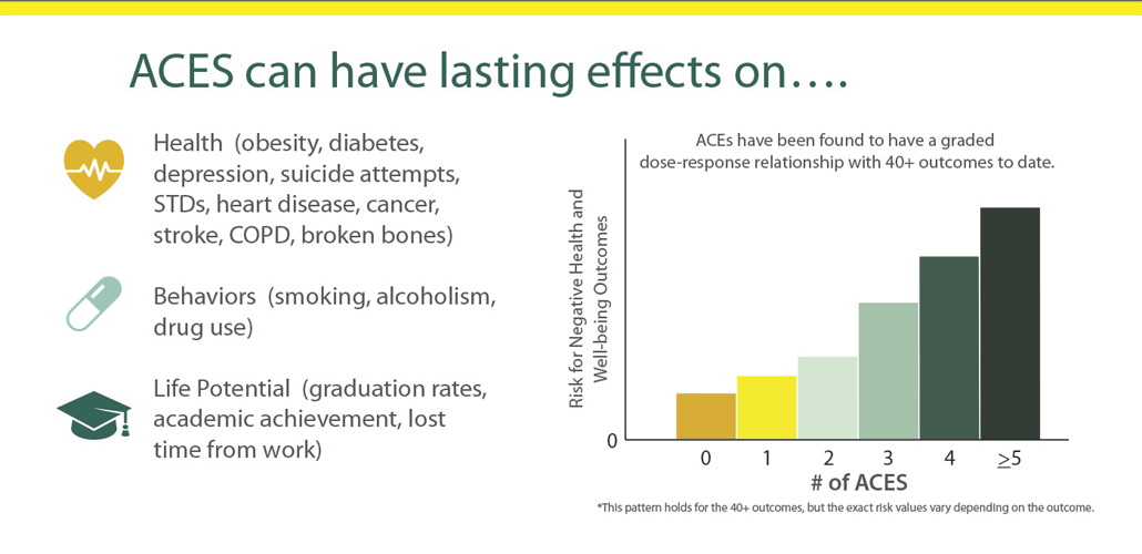 Childhood experiences, both positive and negative, have a tremendous impact on future violence victimization and perpetration, and lifelong health and opportunity. As such, early experiences are an important public health issue. Much of the foundational research in this area has been referred to as Adverse Childhood Experiences (ACEs). Adverse Childhood Experiences have been linked to risky health behaviors, chronic health conditions, low life potential, and early death. As the number of ACEs increases, so does the risk for these outcomes. The wide-ranging health and social consequences of ACEs underscore the importance of preventing them before they happen. CDC promotes lifelong health and well-being through Essentials for Childhood – Assuring safe, stable, nurturing relationships and environments for all children. Essentials for Childhood can have a positive impact on a broad range of health problems and on the development of skills that will help children reach their full potential.